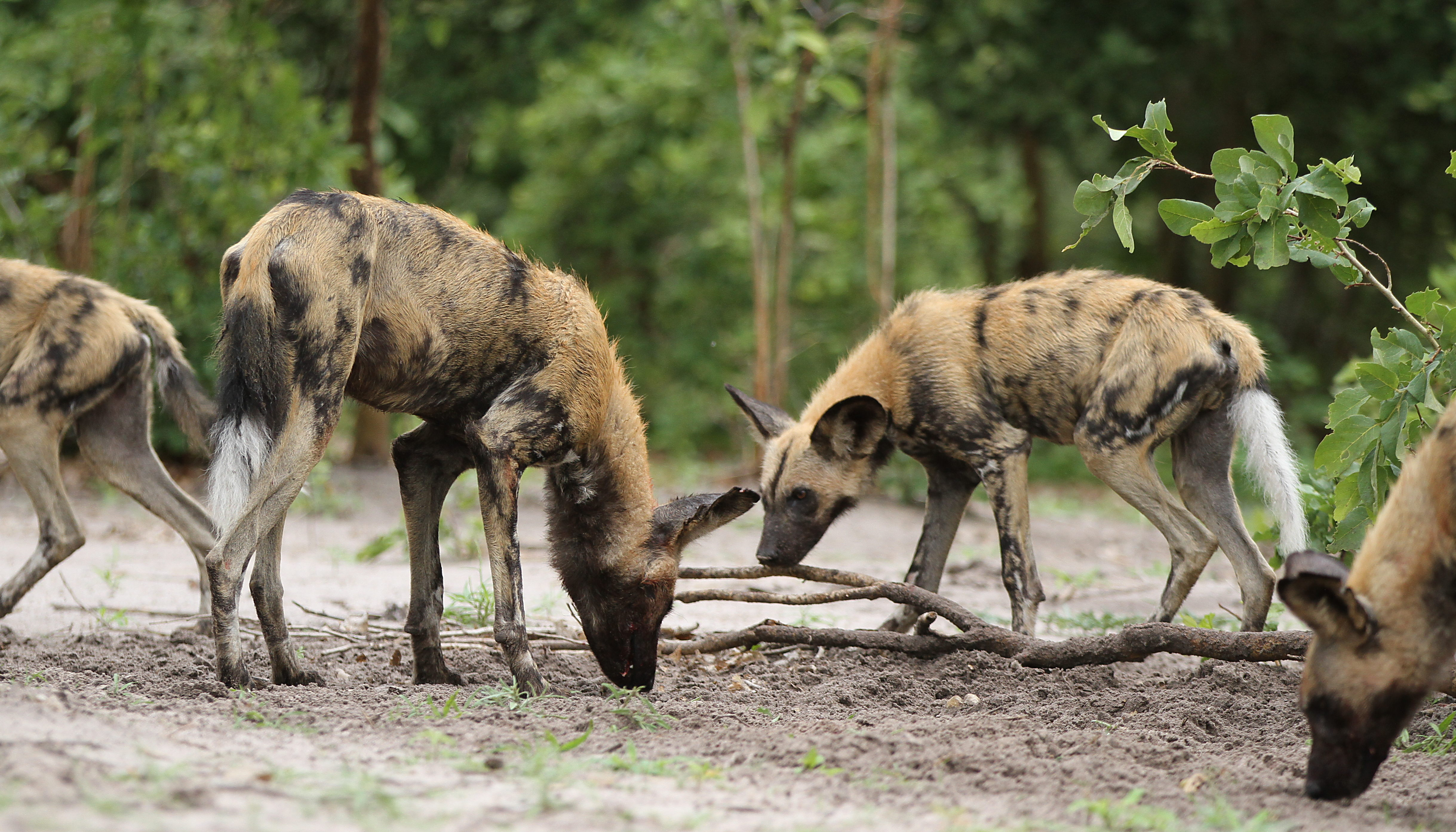 African painted dog, or African wild dog, Lycaon pictus at Savuti, Chobe National Park, Botswana.